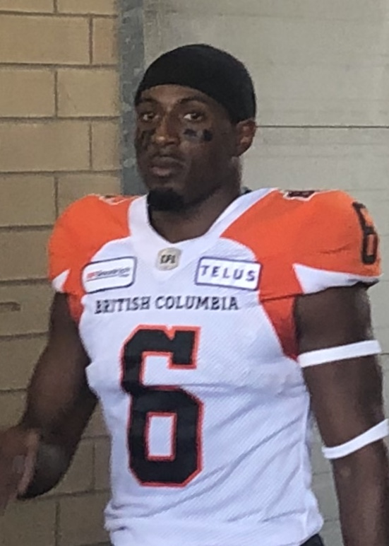 T. J. Lee, defensive back for the BC Lions.